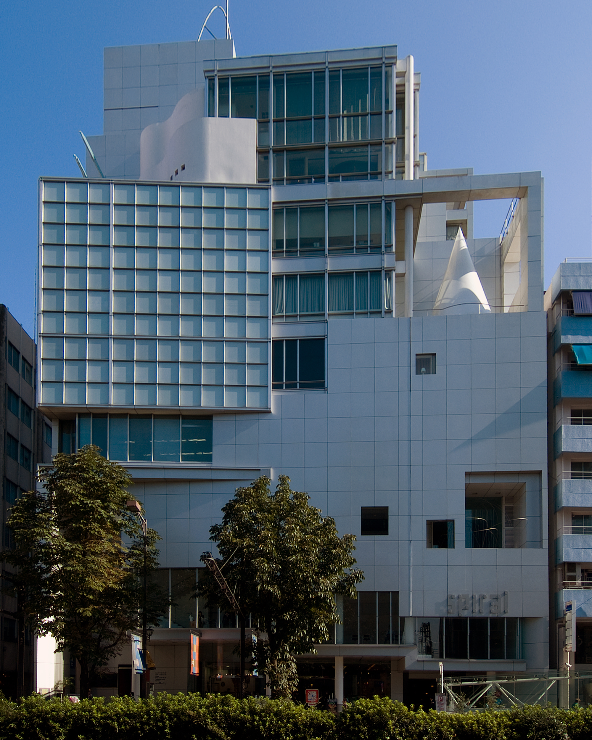 Spiral building by architect Fumihiko Maki in Aoyama, Tokyo, Japan in 1985.